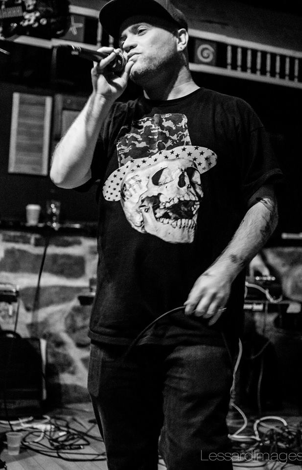 Noah23